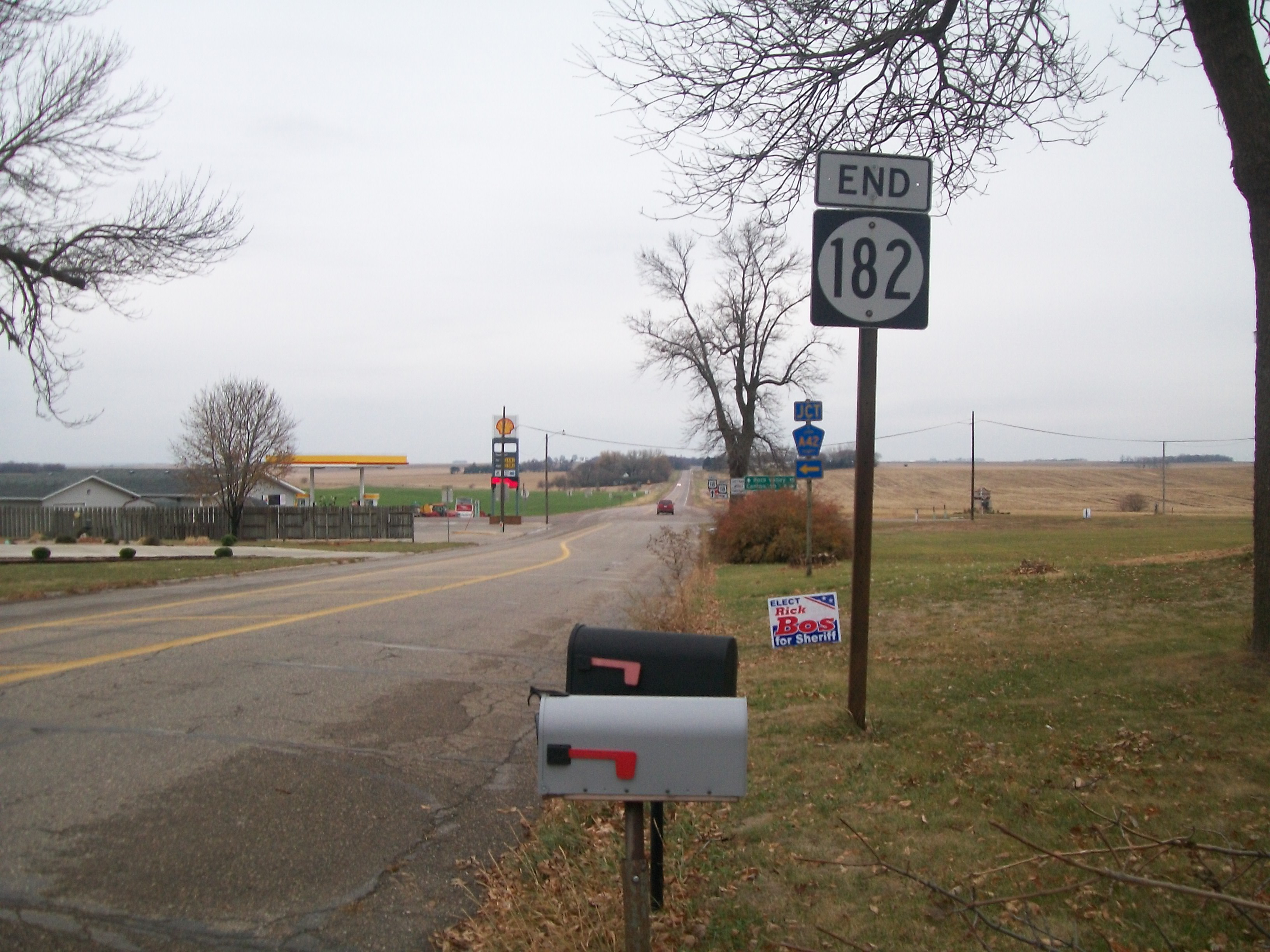 The "End Iowa 182" sign at the route's southern terminus in Inwood